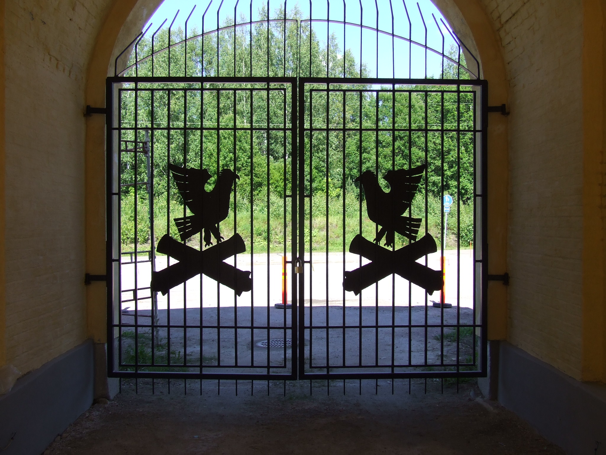 The north-eastern gate of Kyminlinna fortress in Kotka, Finland. Picture is taken from inside the fortress.